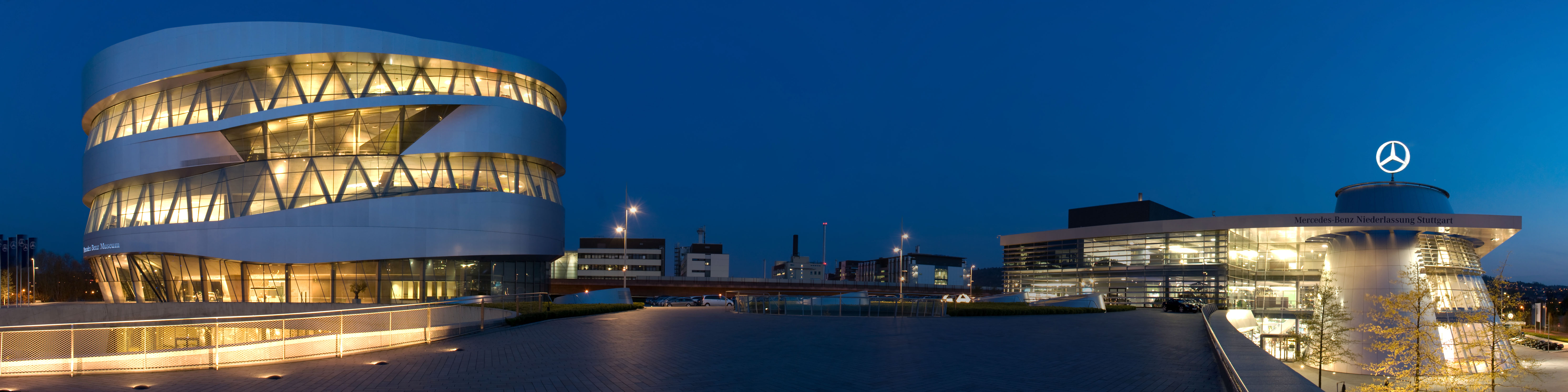 Mercedes-Benz Welt, Stuttgart, Germany. Museum (left) and sales center (right)